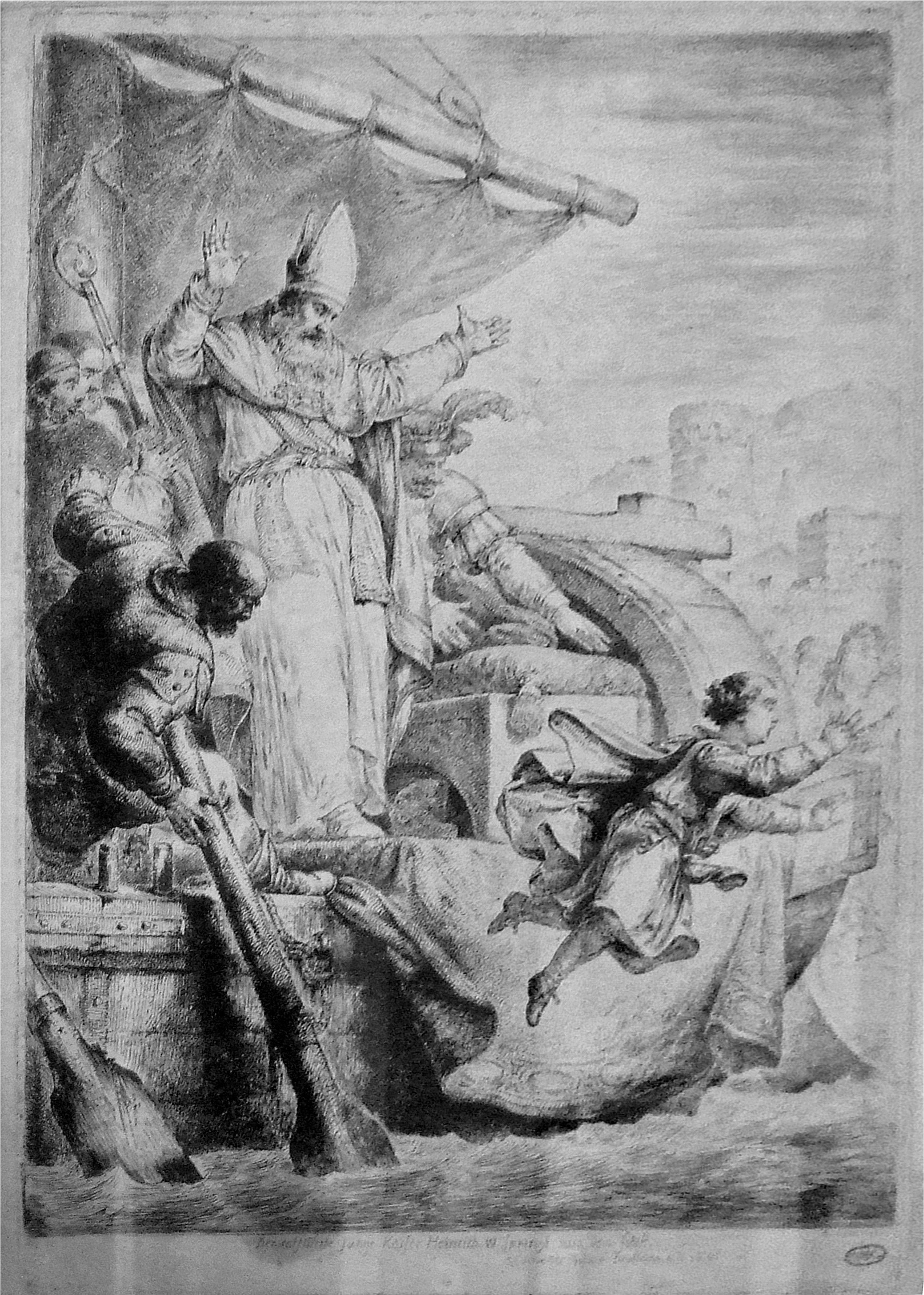 Emperor Henry IV Jumps from the Ship of his Kidnapper, the Archbishop of Cologne, engraving by Bernhard Rode, 1781. "Henry the Fourth, already crowned emperor during his boyhood, is kidnapped from his mother Agnes by the archbishop Anno on board a ship at Kaiserswerth on the Rhine. His regent mother stands in utmost misery at the castle with her court entourage. Her son jumps out of the ship into the Rhine, at which the archbishop, horrified, raises his hands to the heavens. Count Ekbert of Braunschweig stretches out his hands most pityingly to catch him. - History also relates that risking his own life, this count immediately jumped after him and saved him." (Catalog of the 1786 exhibition of the Berlin Academy, reprinted in: Kataloge der Berliner Akademie-Ausstellung 1786-1850, ed. by H. Börsch-Supan, vol. 1, Berlin, 1971.)